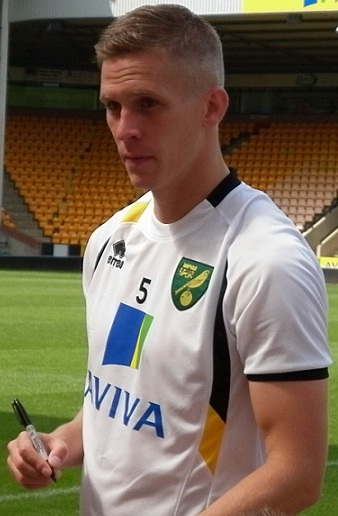 Steve Morison at Norwich City's open training session on 9 August 2012.